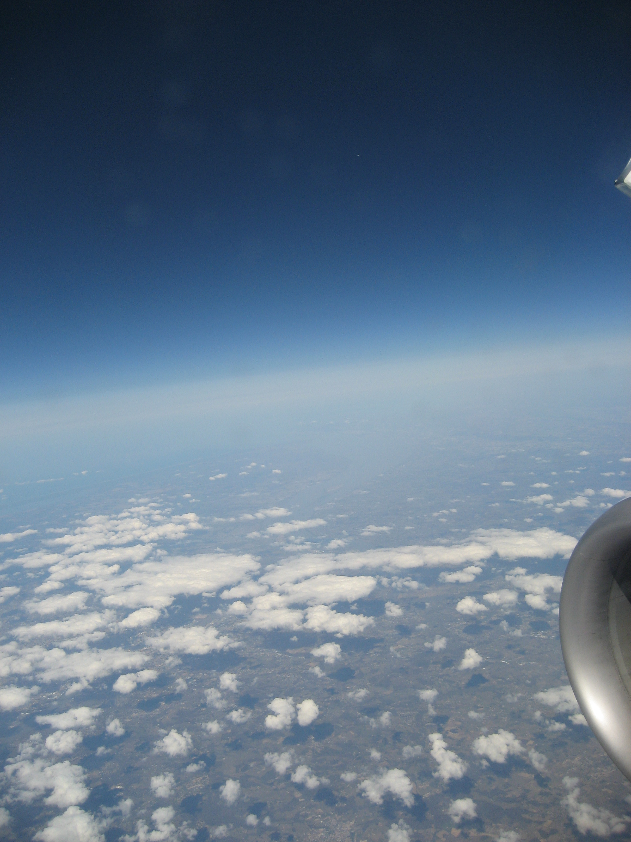 stratosphere